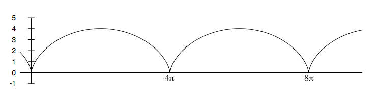 cycloid generated by rolling circle with radius 2